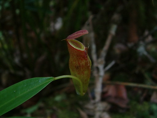 Nepenthes dubia seedling